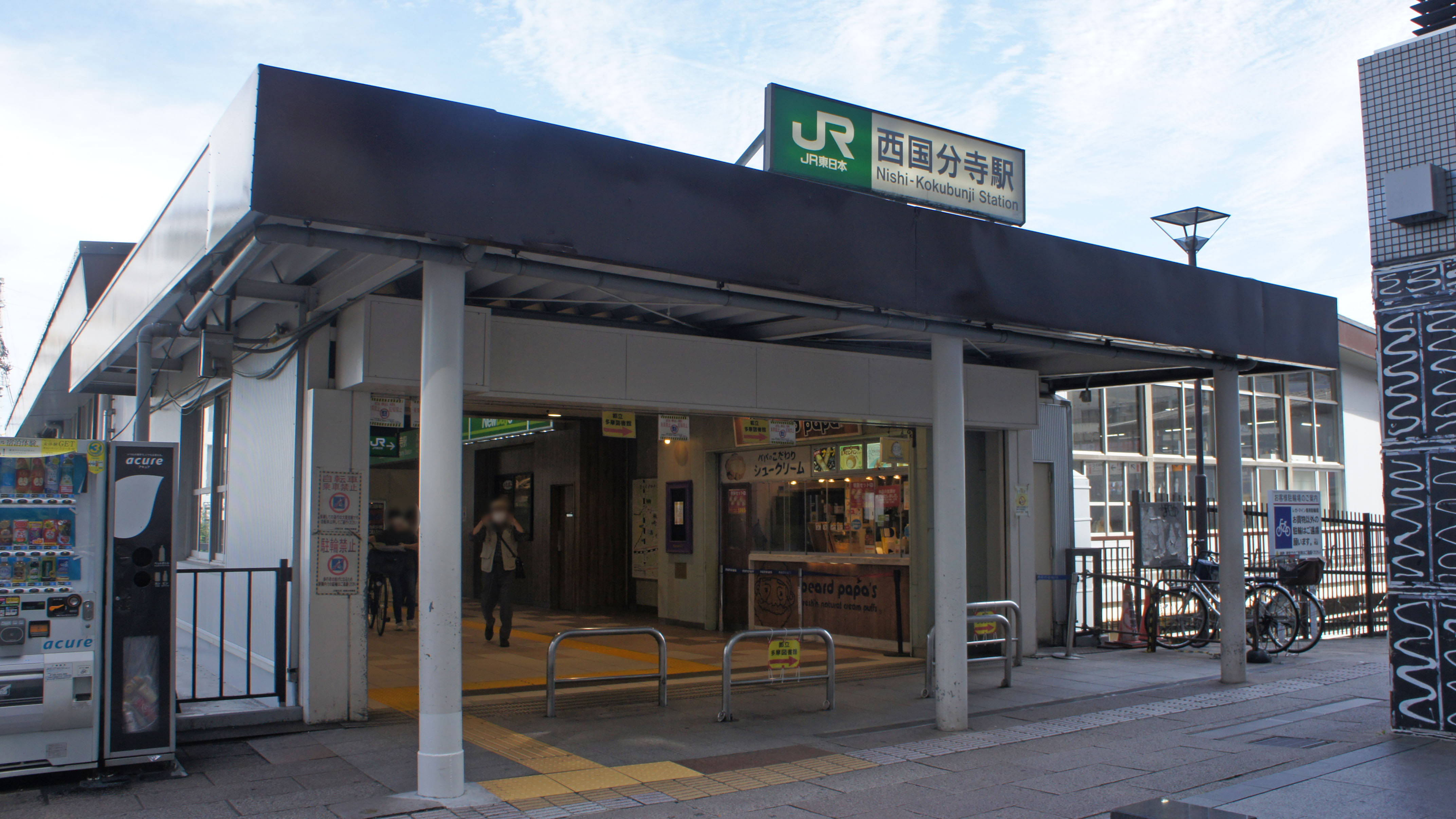 South Exit of JR Chuo-Main-Line/Musashino-Line Nishi-Kokubunji Station